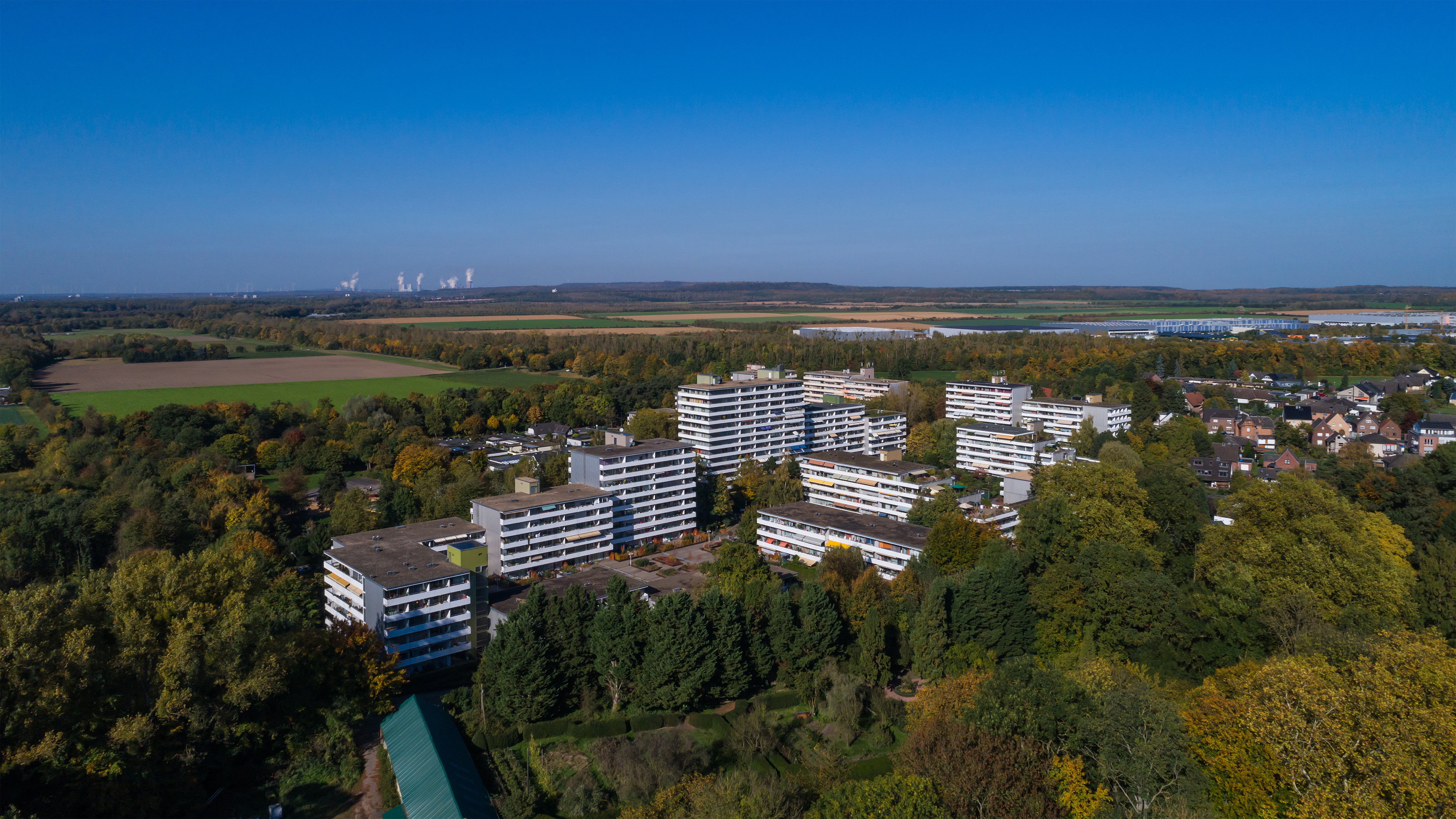 Apartment blocks in Tuernich / Kerpen, Rhein-Erft-Kreis (Germany)